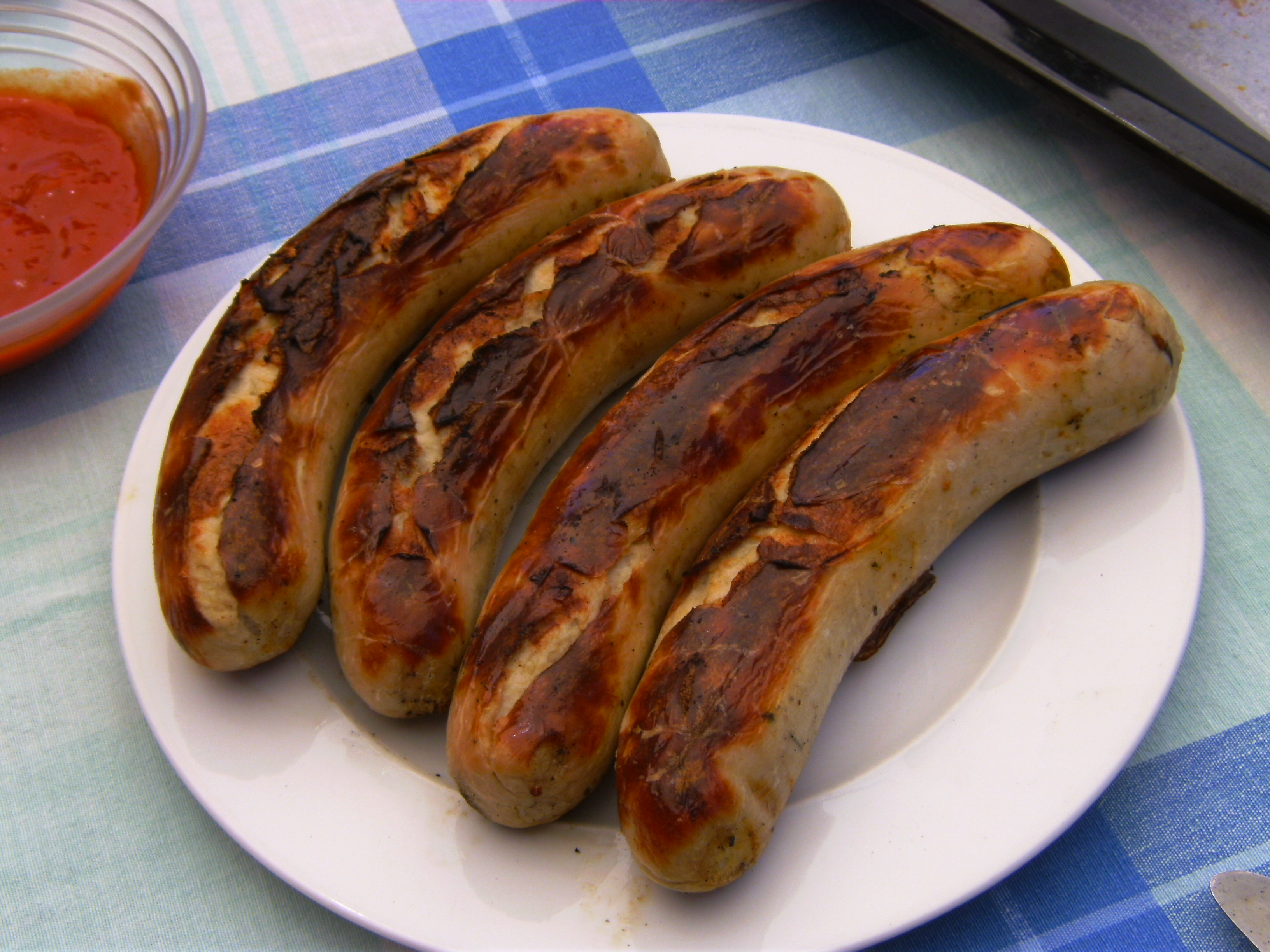 "Olma-Bratwürste" (Olma Sausages) from St. Gallen